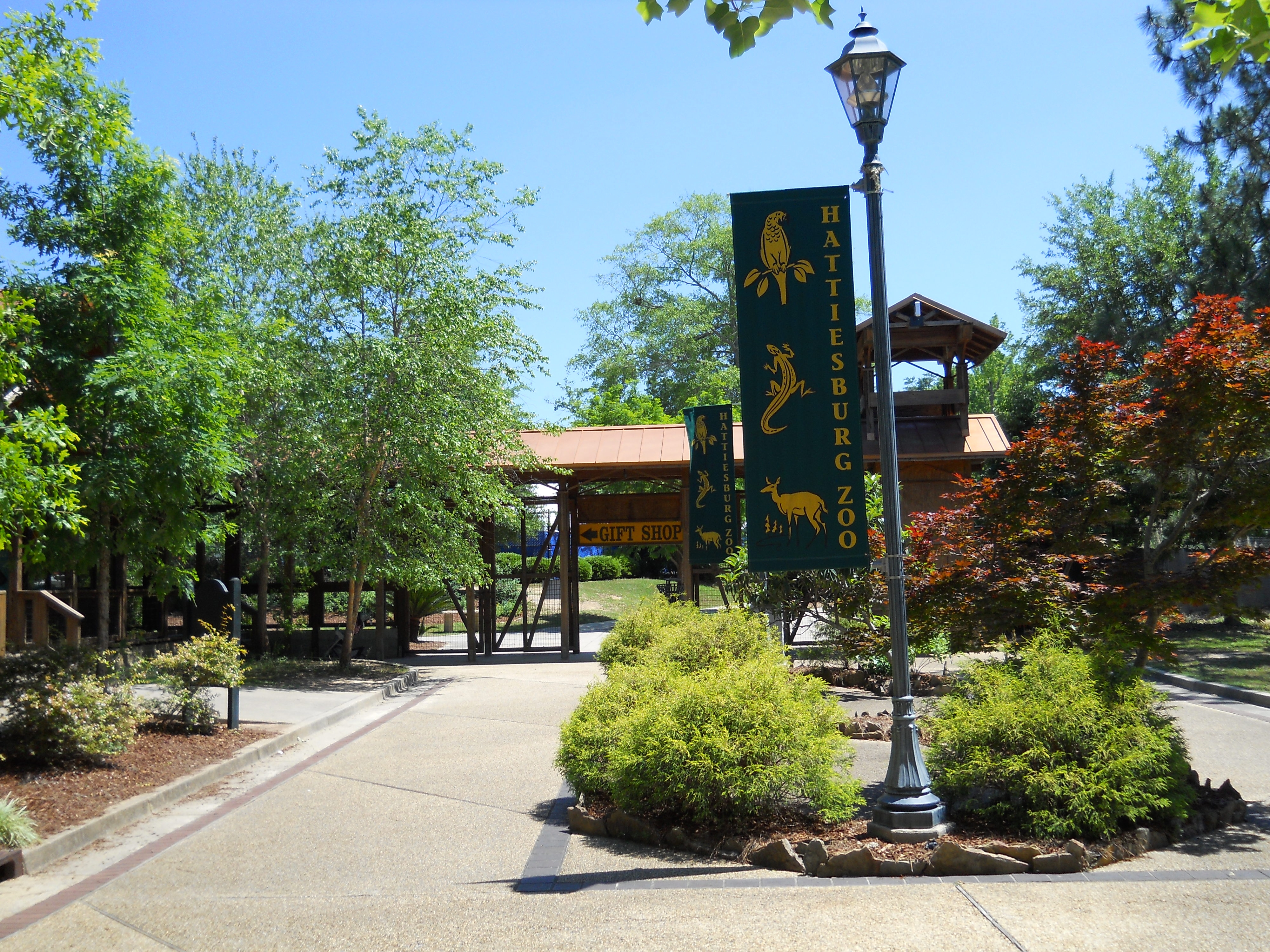 Entrance area at Hattiesburg Zoo, Hattiesburg, Mississippi, USA